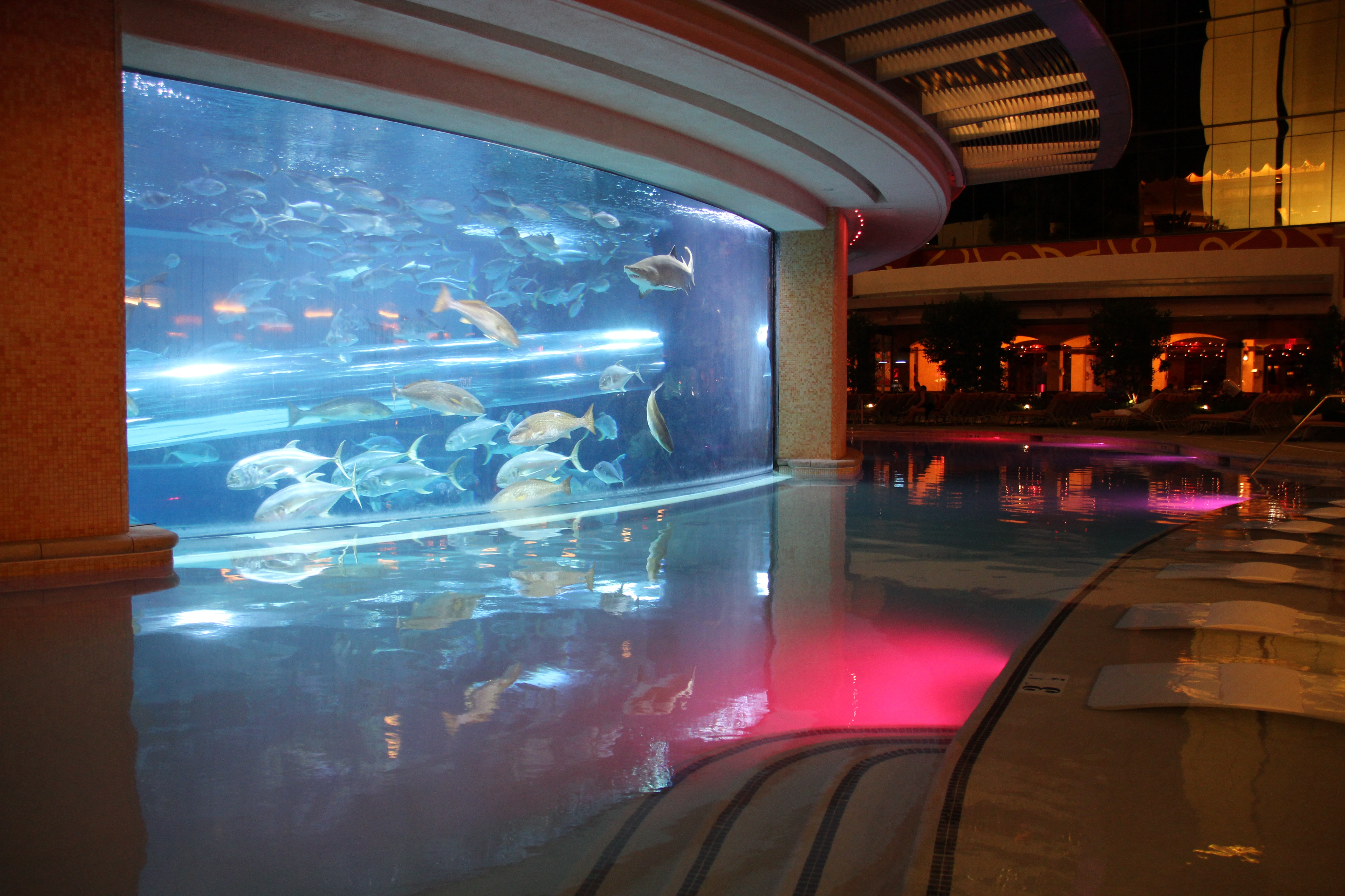 This slide is going through a shark tank.